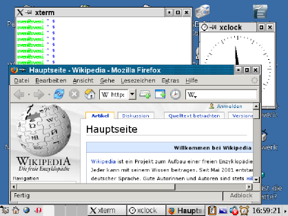 Programs with Kwin (KDE)